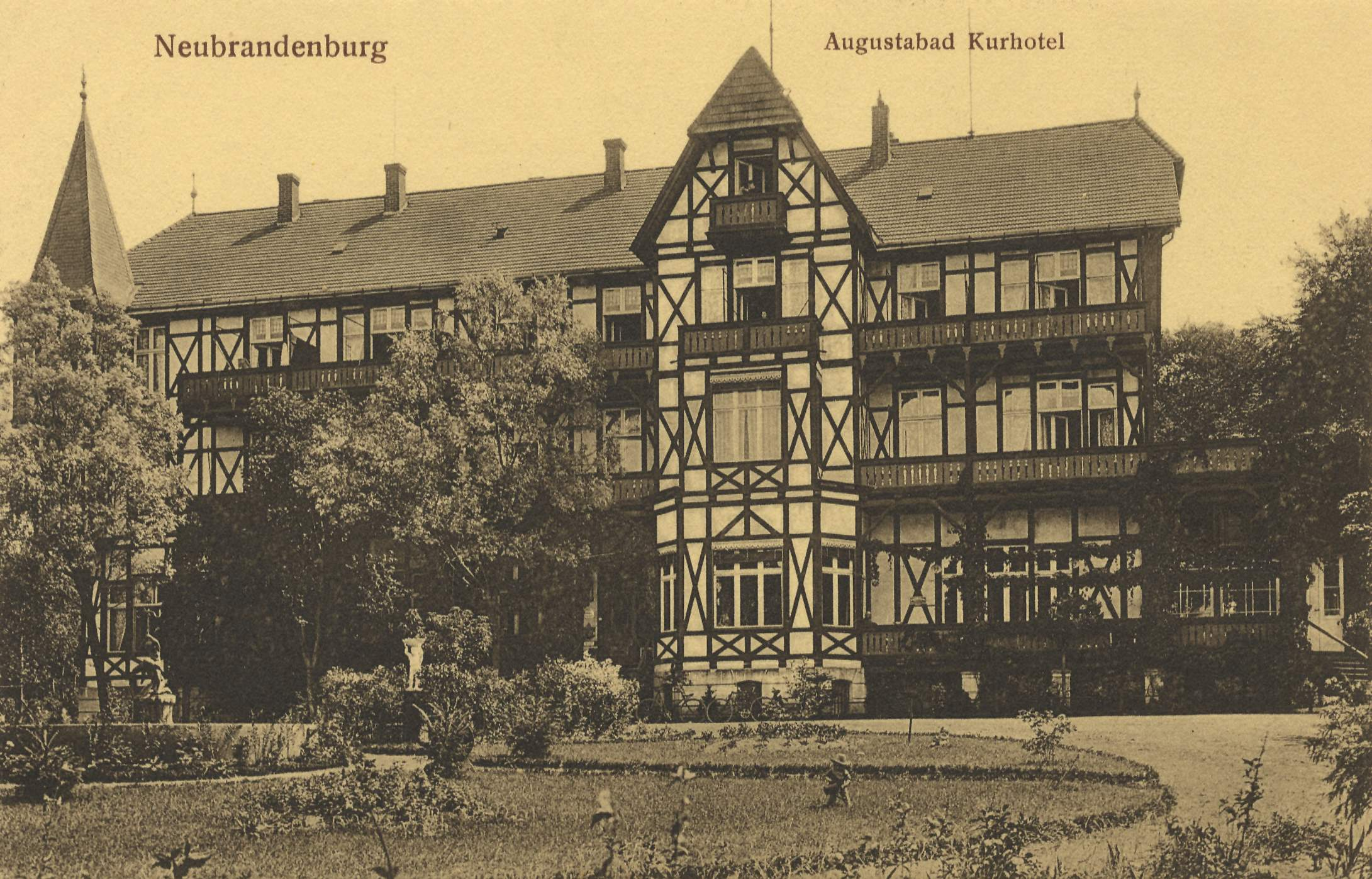 The former Kurhotel Augustabad (health resort / spa hotel) in Neubrandenburg, Mecklenburg-Vorpommern, Germany. It's location was right at the banks of the Tollensesee lake. It opened in the summer season of 1895. It was considered the "biggest timber frame building with a visible timber structure" in Northern Germany at the time. The famous poet Theodor Fontane stayed at the hotel several times and liked the area a lot, last in 1897 before his death in 1898.[2]